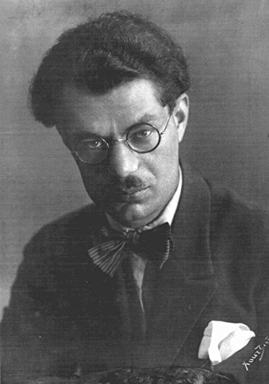 Greek author Stratis Myrivilis (1890-1969)